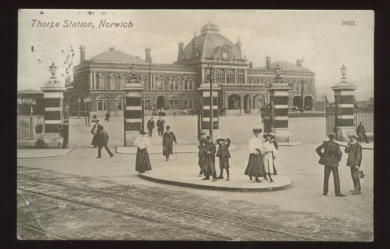 A Postcard of Norwich Thorpe Railway Station 1911